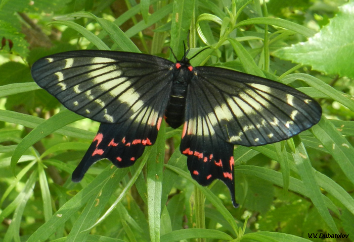 Russia, Khabarovsk Province, Kiya river